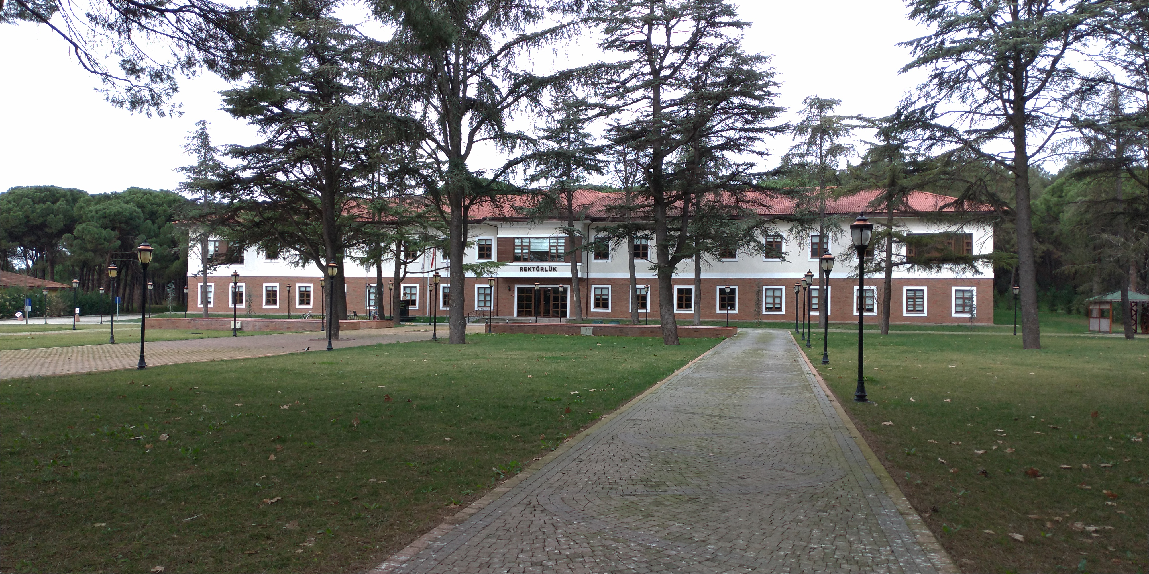 Front picture of the Rectorate building of Gebze Technical University in Kocaeli.